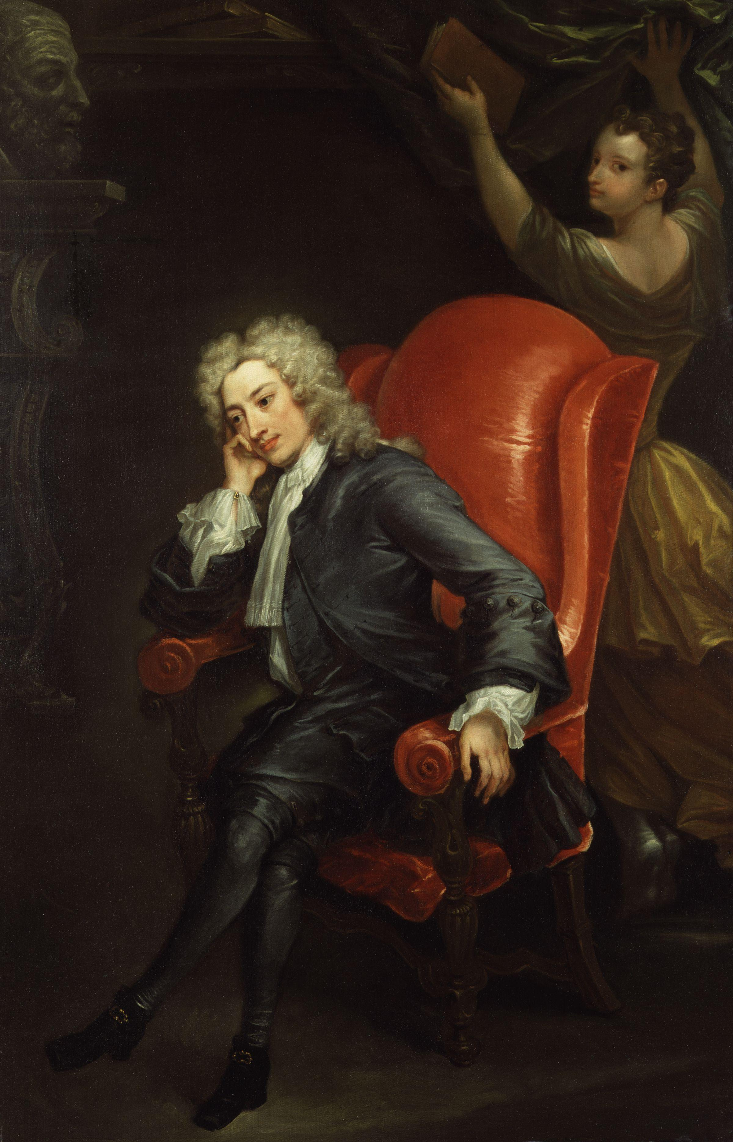 All images in this batch have been confirmed as author died before 1939 according to the official death date listed by the NPG.